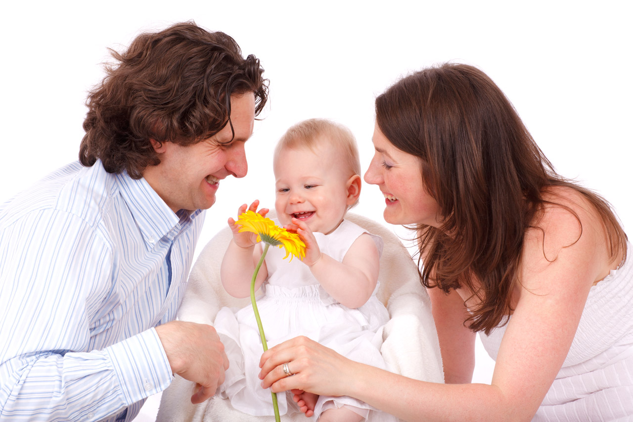 Picture of a happy family